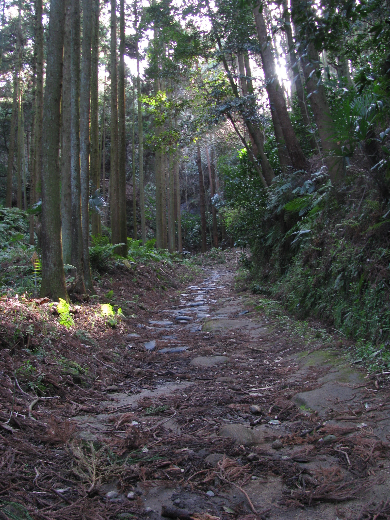 The Asahina kiridoshi (Asahina pass) is a pass of Kamakura's Seven Entrances on the Kamakura Kaido.